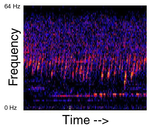 This sound was present when PMEL began recording SOSUS in August, 1991. It consists of a long train of narrow-band upsweeping sounds of several seconds duration each. The source level is high enough to be recorded throughout the Pacific. It appears to be seasonal, generally reaching peaks in spring and fall, but it is unclear whether this is due to changes in the source or seasonal changes in the propagation environment. The source can be roughly located at 54o S, 140oW, near the location of inferred volcanic seismicity, but the origin of the sound is unresolved. The overall source level has been declining since 1991 but the sounds can still be detected on NOAA's equatorial autonomous hydrophone arrays.